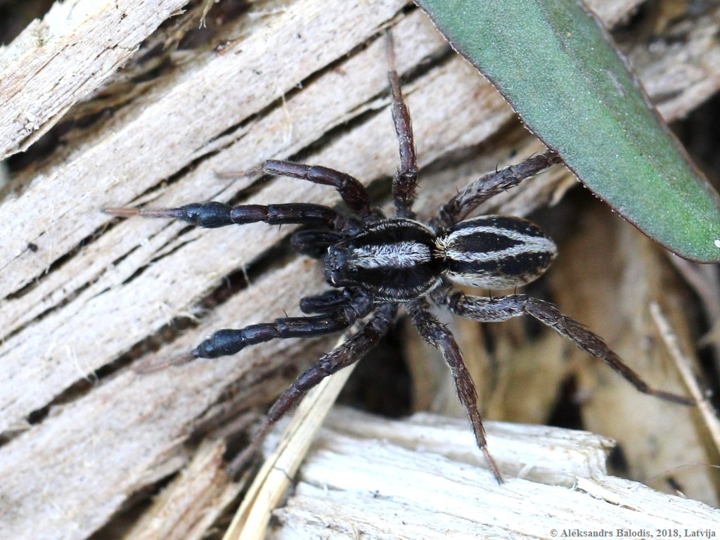 Alopecosa cuneata